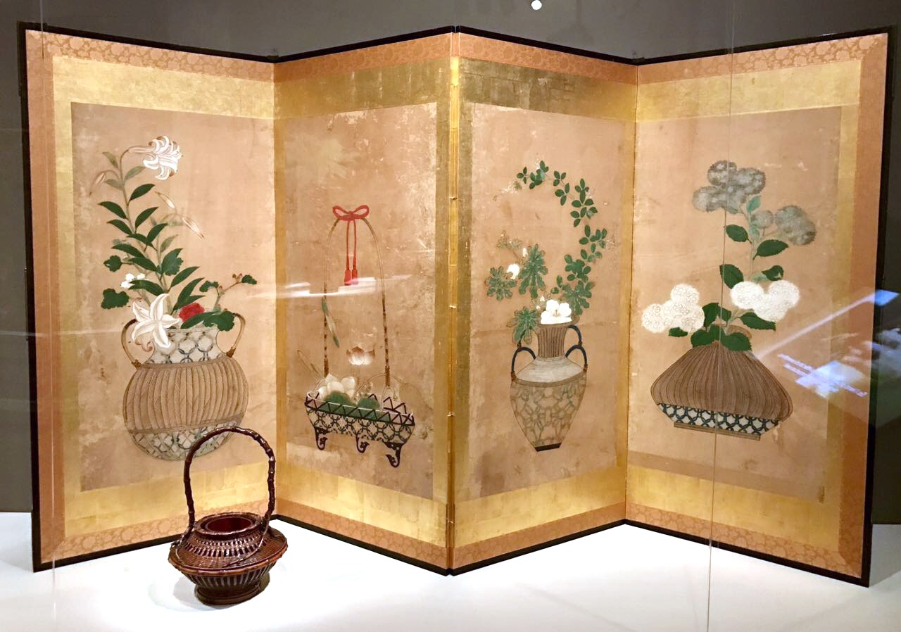 Flower arrangements in baskets. Place of Origin: Japan Date: 1650-1750 Historical Period: Edo period (1615-1868) Object Name: Four panel folding screen Materials: Ink, colors, and gold on paper Dimensions: H. 39 1/2 in x W. 21 1/8 in, H. 100.3 cm x W. 53.7 cm (image); H. 55 in x W. 25 3/8 in, H. 139.7 cm x W. 64.5 cm (overall) Credit Line: Gift of Lloyd Cotsen Department: Japanese Art Collection: Painting Object Number: 2003.55